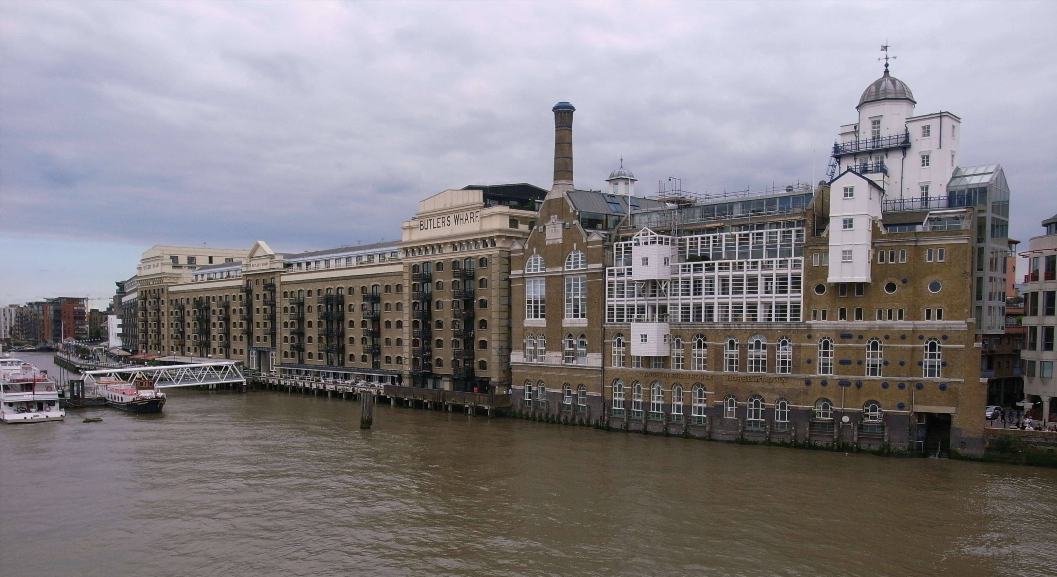 Butler's Wharf on the south bank of the River Thames, photographed from Tower Bridge in London, England.